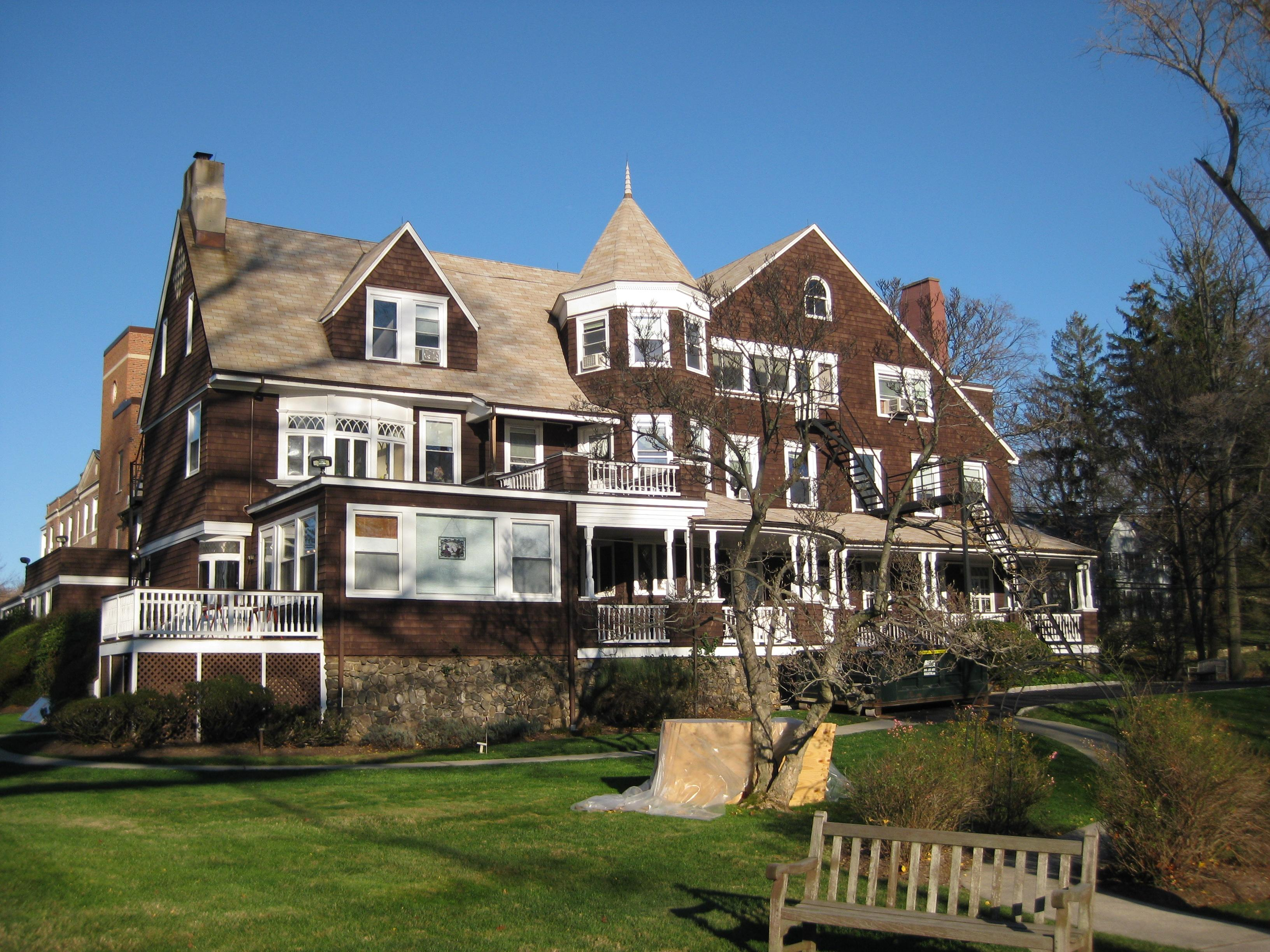 Photo of General Edwin McAlpin's house, called "Hillside" in Ossining, NY. After the general's death, his son sold it to the Daughters of the British Empire and it is currently known as Victoria Home and is a retirement home.